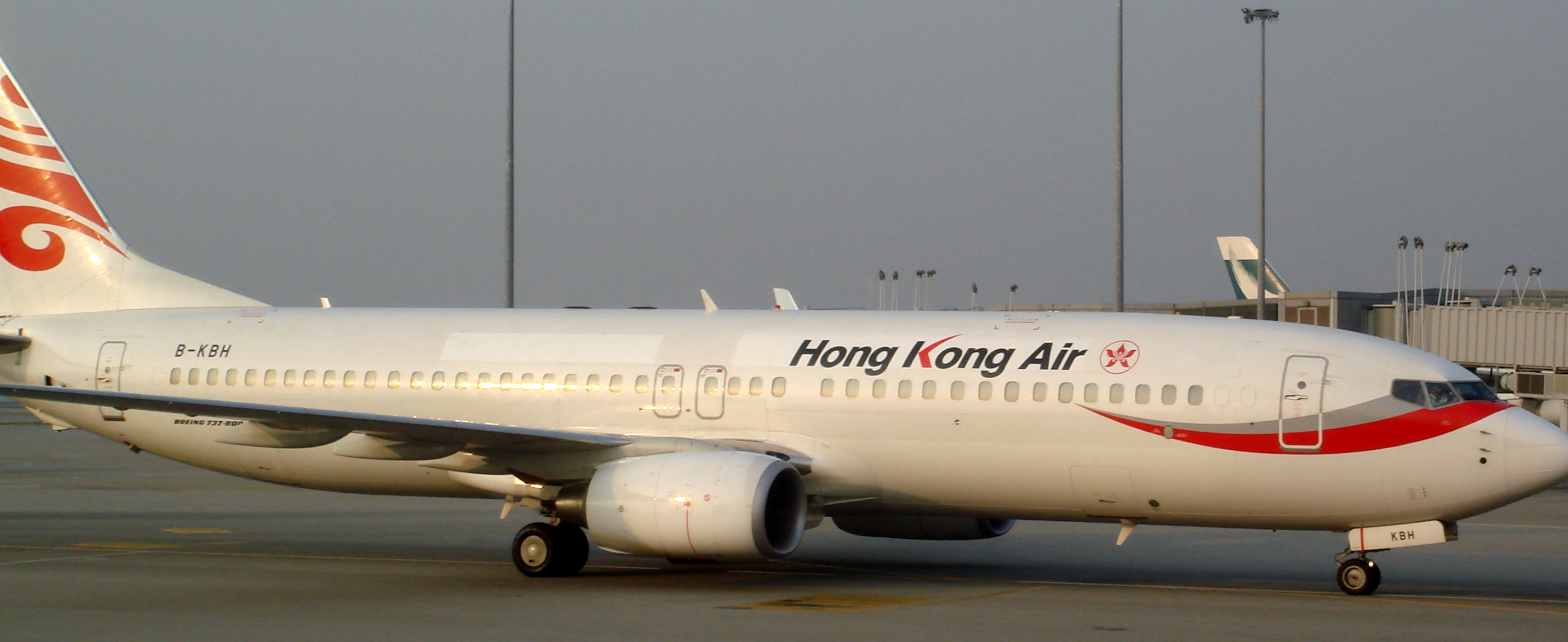 Hong Kong Airlines, Boeing 737-808 (B-KBH)